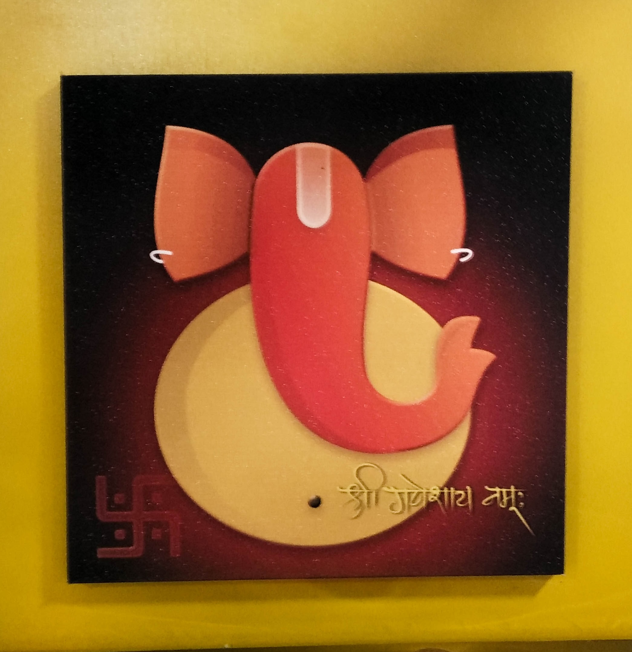 Ganesh Mantra Images - A representation of Lord Ganesha with the Mantra Shri Ganeshaya Namah